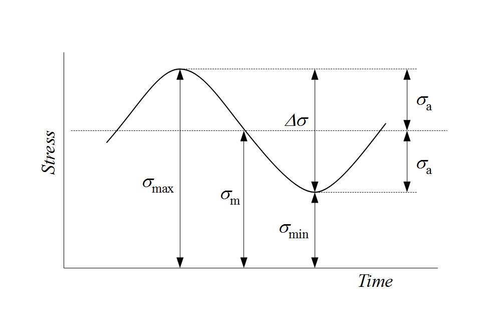 the diagram showing typical reversed stress cycles (sine wave) and term of fatigue